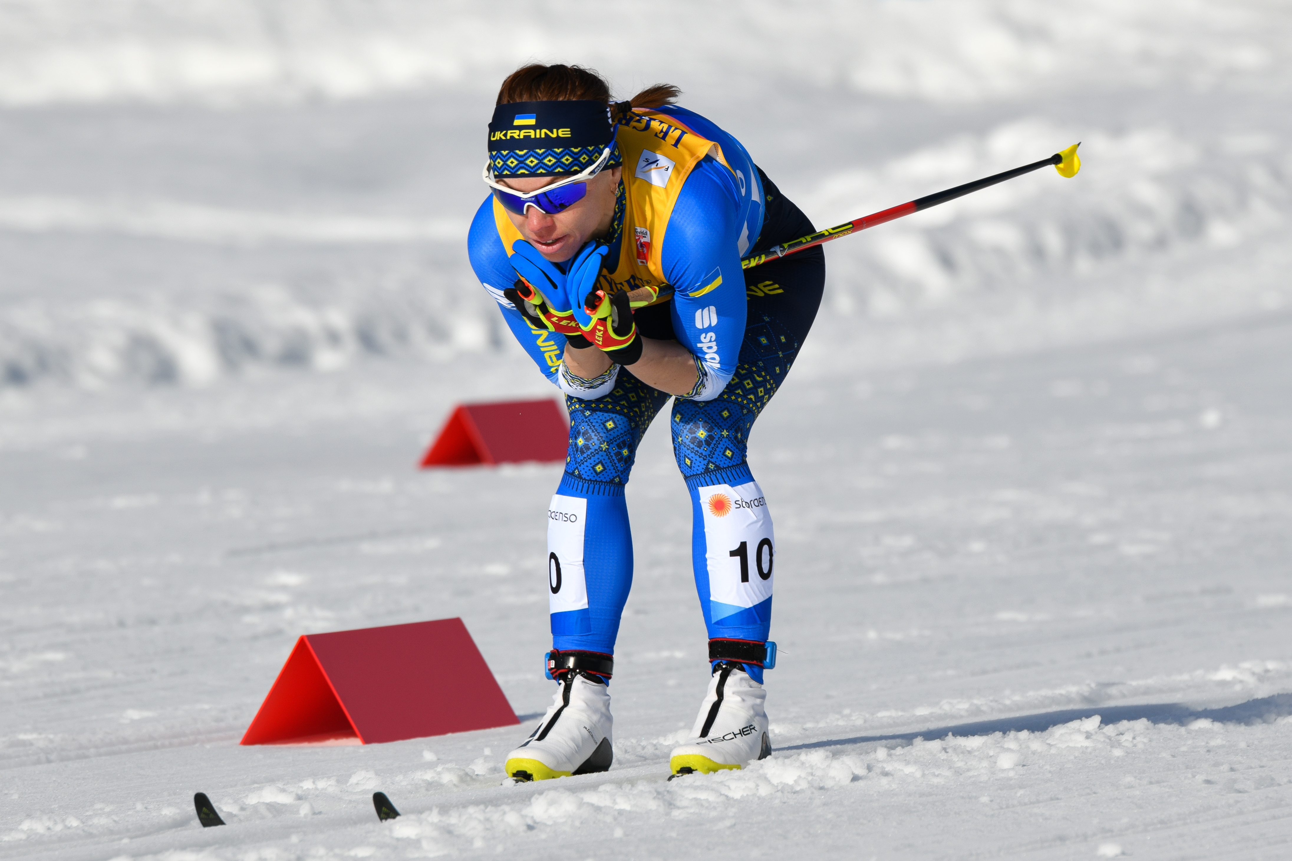 FIS Nordic Wolrd Ski Championships Seefeld 2019 - Ladies Cross Country 10km. Picture shows Tetiana Antypenko (UKR).